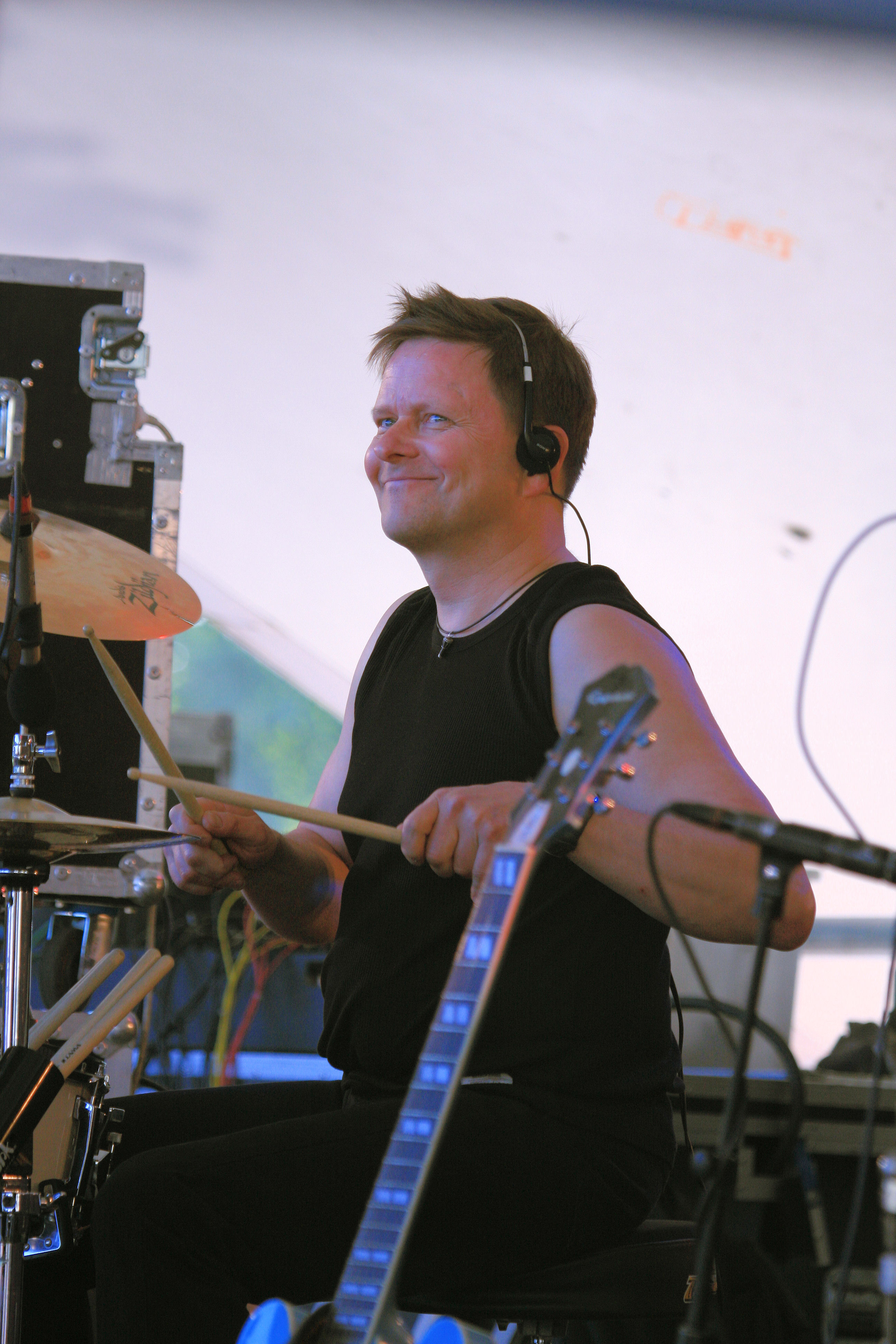 Jarmo Hovi from Miljoonasade-group